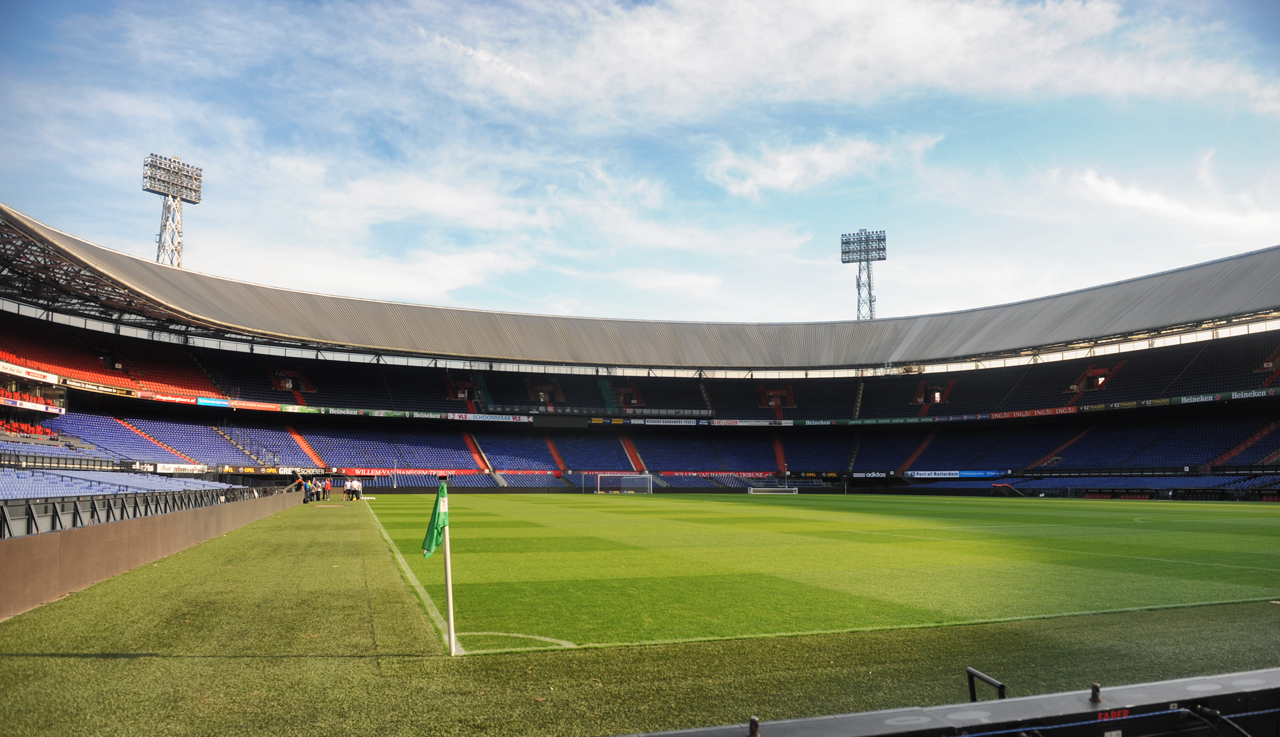 Stadion Feijenoord (De Kuip) in Rotterdam, the Netherlands